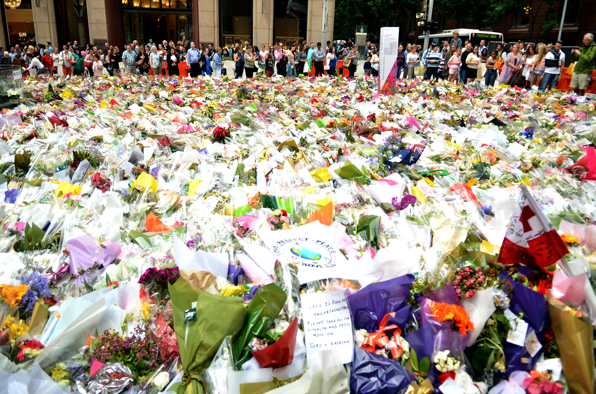 Flower bouqets, Martin Place, Sydney 2014